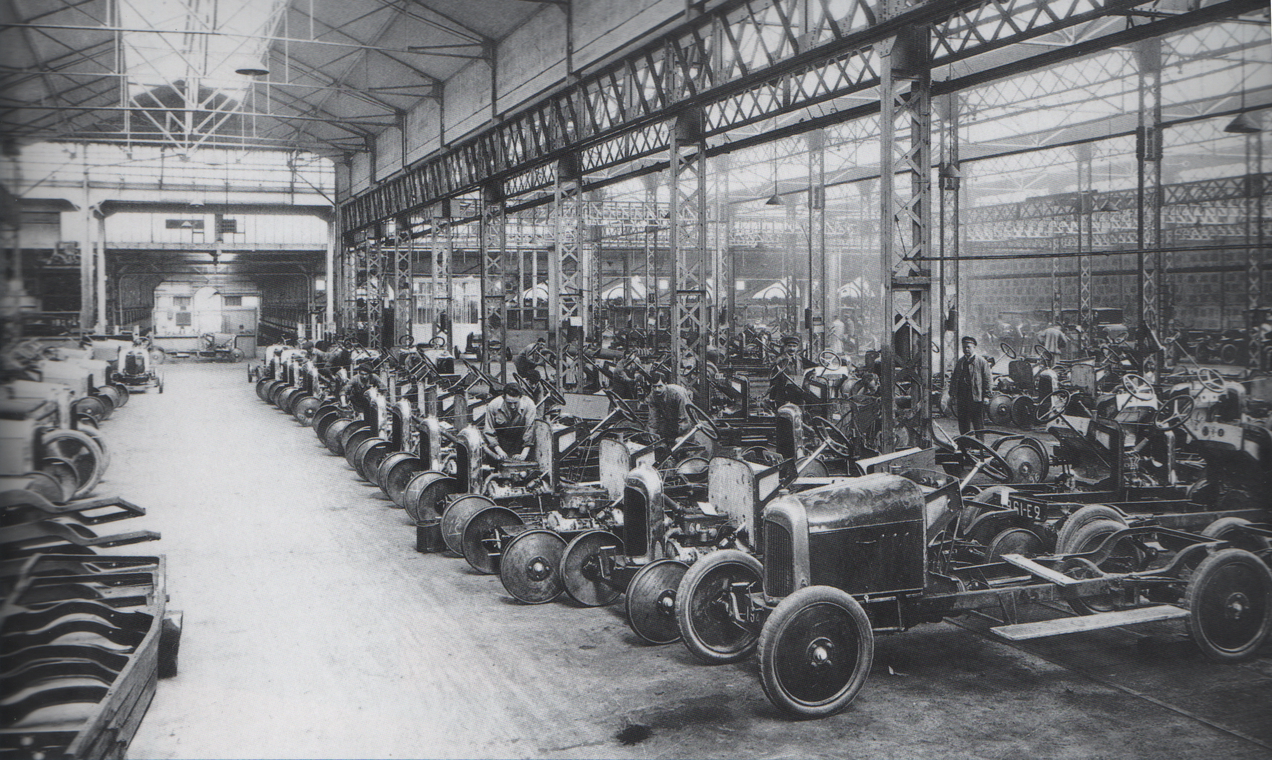 assembly line of a Citroën 10hp